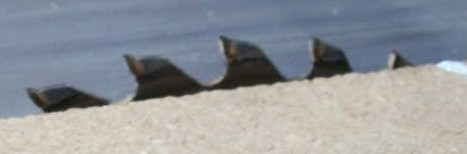 When cutting (sometimes called "ripping") a board with a table saw, the blade should extend higher than the board by about a quarter of an inch. This lessens the risk of accidents and improves the quality of the cut. Source: here (it says "public domain" at the beginning of the article "Stair Repair" here. Questions? Write to my Wikipedia page or email me at